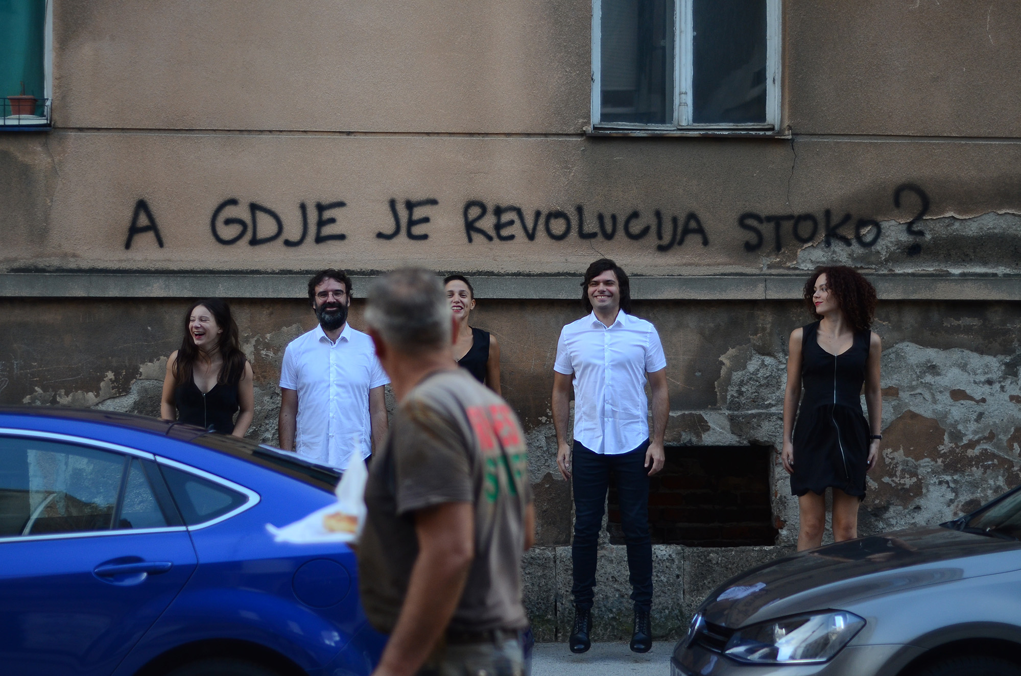 In recent years Montazstroj is dealing with socially excluded groups in society actively involving them in the artistic processes